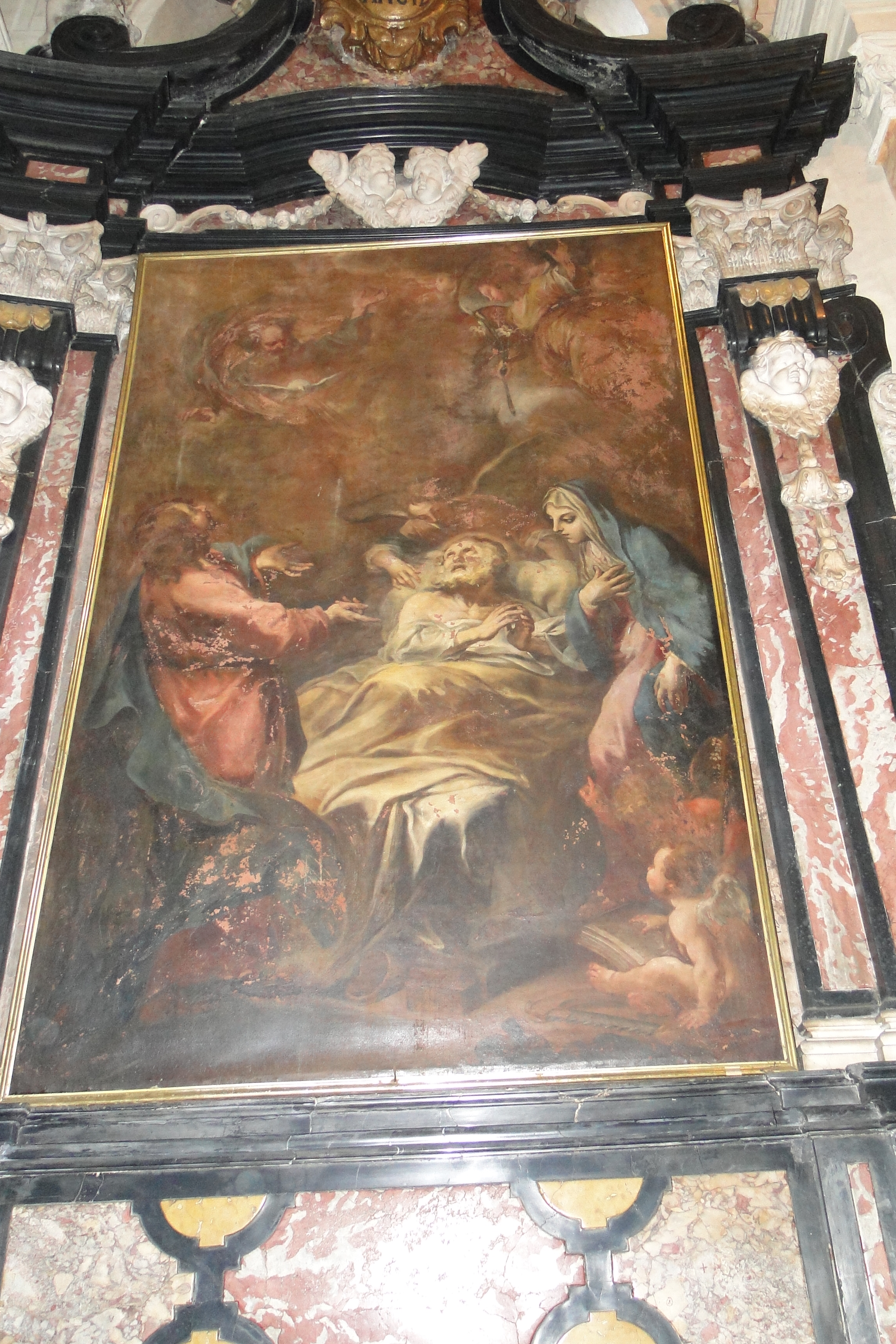 Right altar of the church of Immaculate Conception in Turin (Italy) - Altar-piece of Giovanni Antonio Mari representing the death of St. Joseph